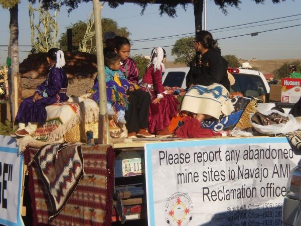 Abandoned Mines across Indian country are an epic issue in which Native peoples struggle to have contained and eradicated.